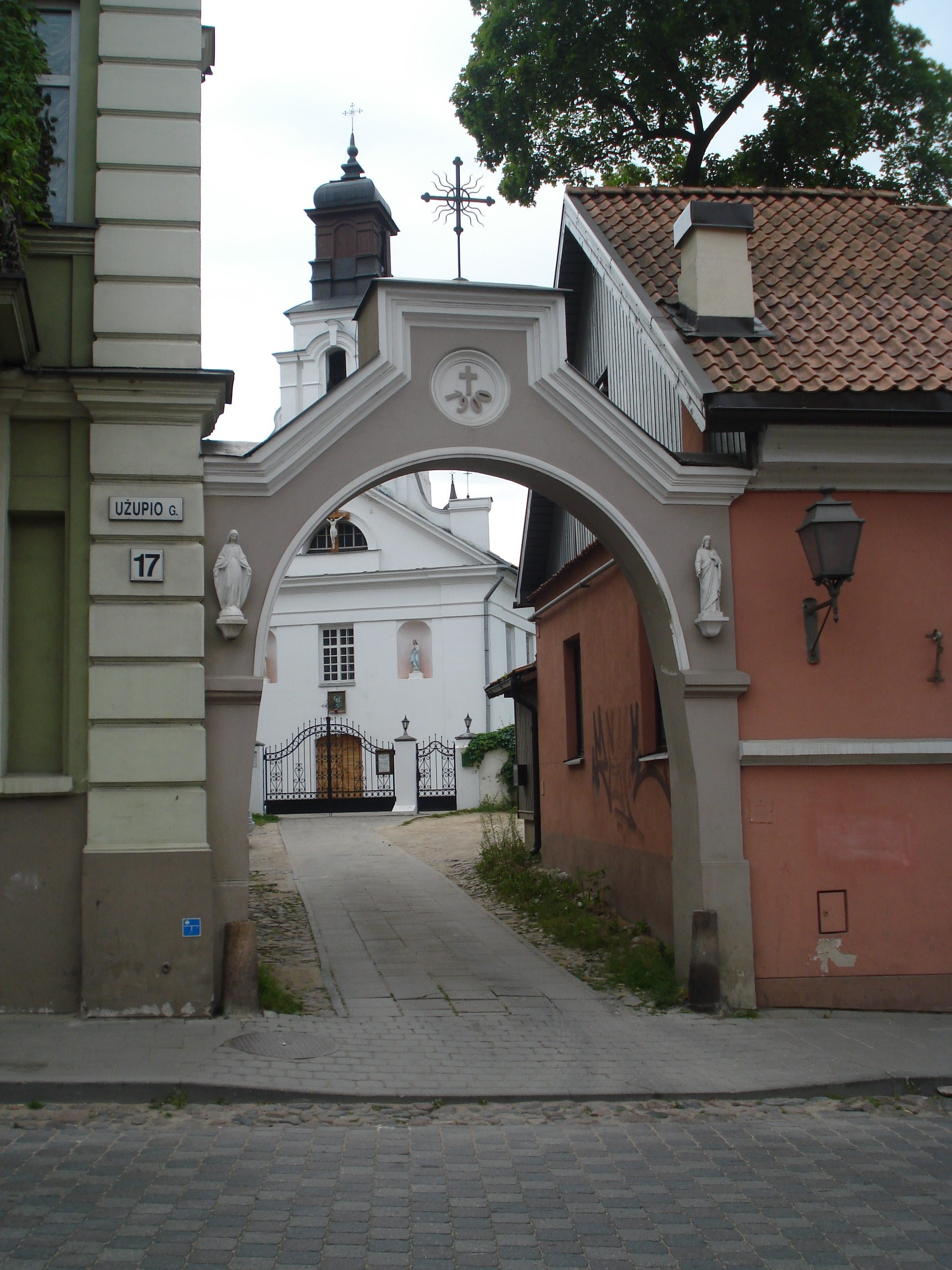 Gate of the Church of St. Batholomew (Švento Baltramiejaus bažnyčia, Świętego Bartłomieja) in Vilnius (Užupio g. 17a)